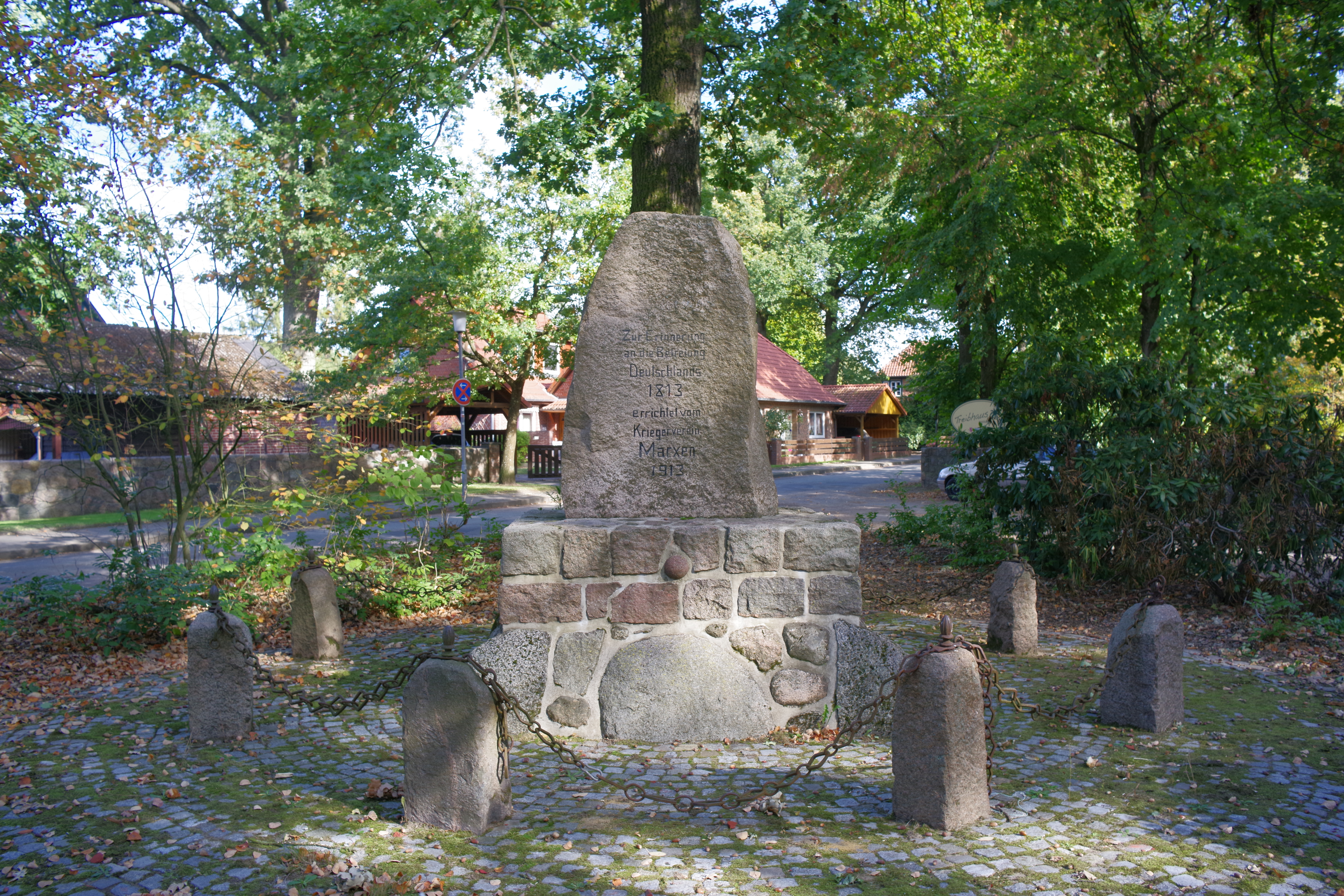 Memorial for the Battle of Leipzig in Marxen. The inscription reads: "Zur Erinnerung an die Befreiung Deutschlands. 1813 errichtet vom Kriegerverein Marxen 1913" ("Remembering the liberation of Germany. 1813 erected by the Warrior association Marxen. 1913") In 2013 the memorial was dedicated to permanent peace in Europe by the municipality of Marxen.